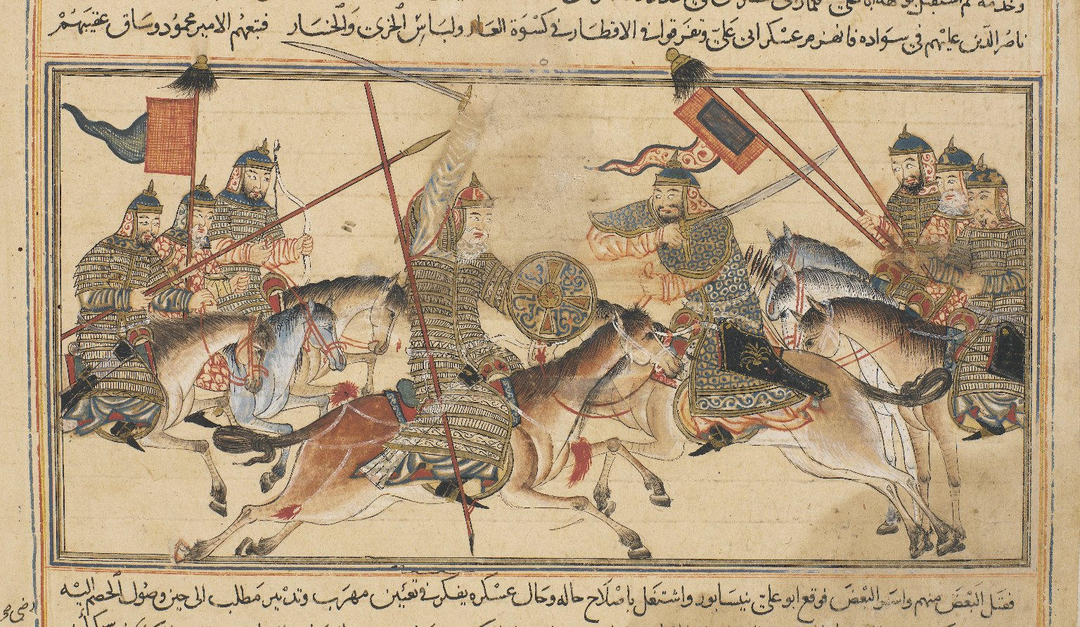 Artwork of a battle between Mahmud of Ghazni and Abu 'Ali Simjuri.